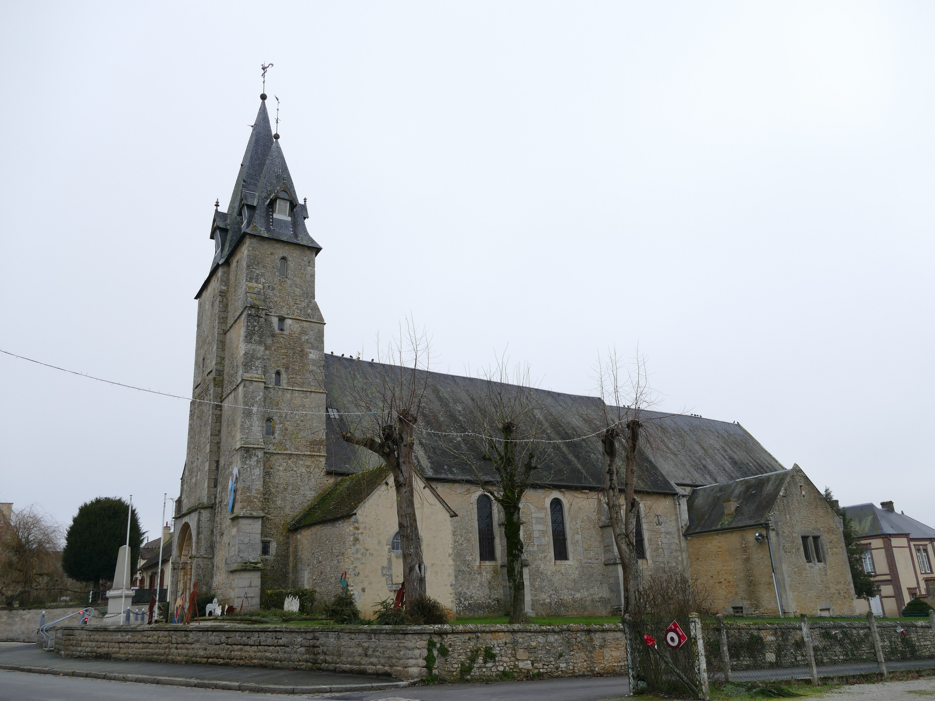 Saint-Peter-and-Saint-Paul's church in Essay (Orne, Normandie, France).